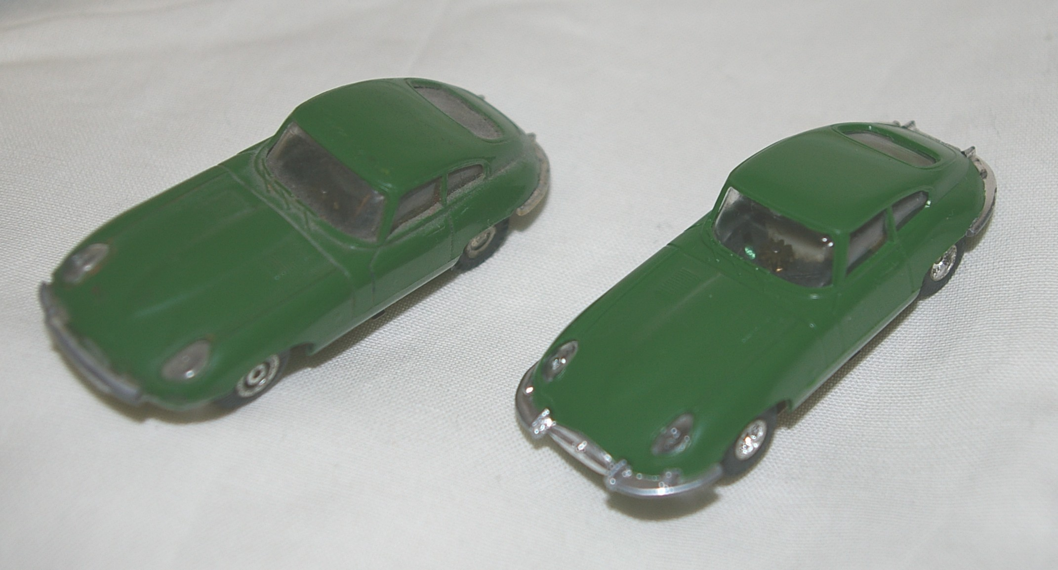 Faller AMS slotcar toys. Own items, own picture taken Oct 30, 2006. Toy Jags. British racing green (of course, nothing else). One mint NOS nwe old stock, never run. The other looser of hundreds of races, but still going strong.